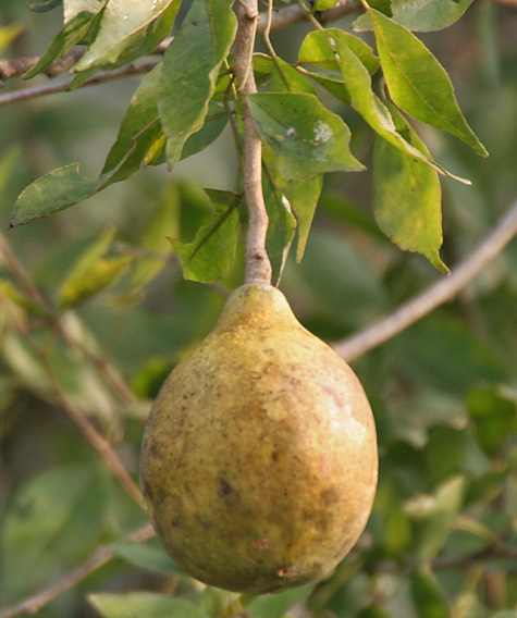 Bael Aegle marmelos at Narendrapur near Kolkata, West Bengal, India.